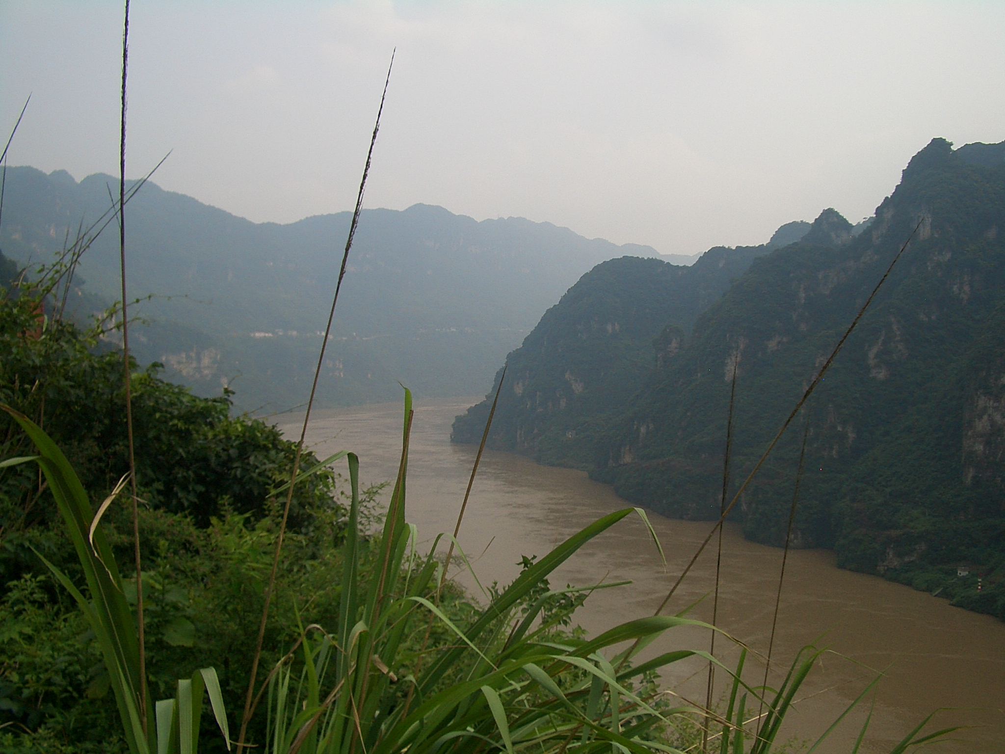 The high shores of the Chang Jiang (Yangtze River) seen from Hubei route S334 between Tianxzhushan and Liantuo villages (Yiling District, between Yichang and Sandouping)